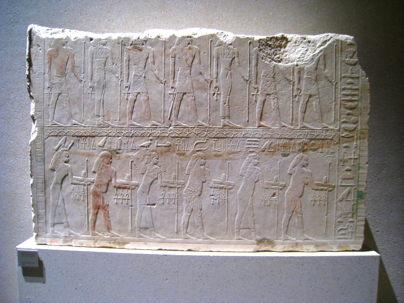 Reliefs of the funerary temple of Sahure. Procession of gods and goddess of Egypt above a second procession of nomes of Egypt - 5th dynasty of Egypt - Egyptian museum of Berlin